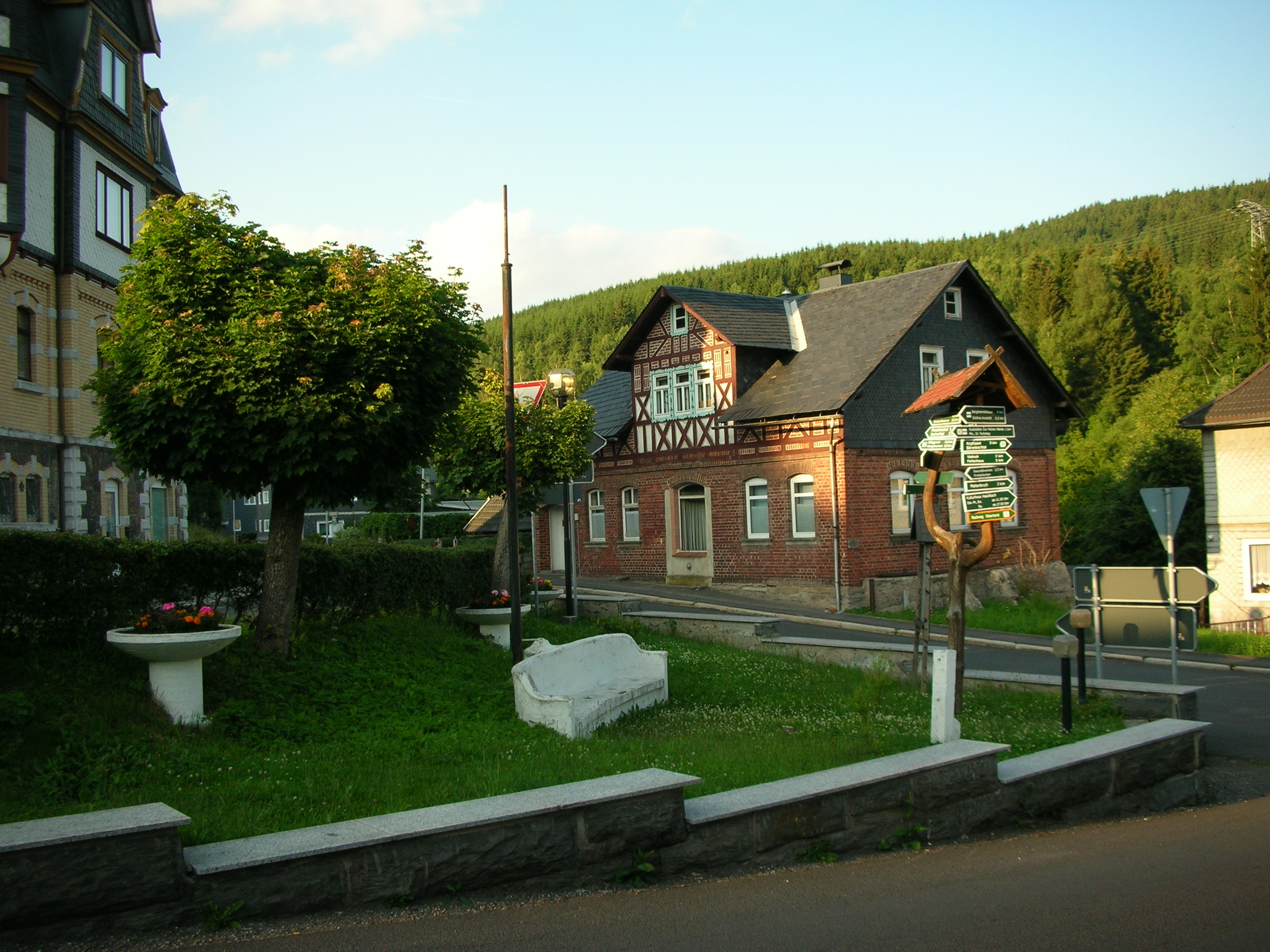 central place of the village Haselbach in Oberland am Rennsteig, Thuringia